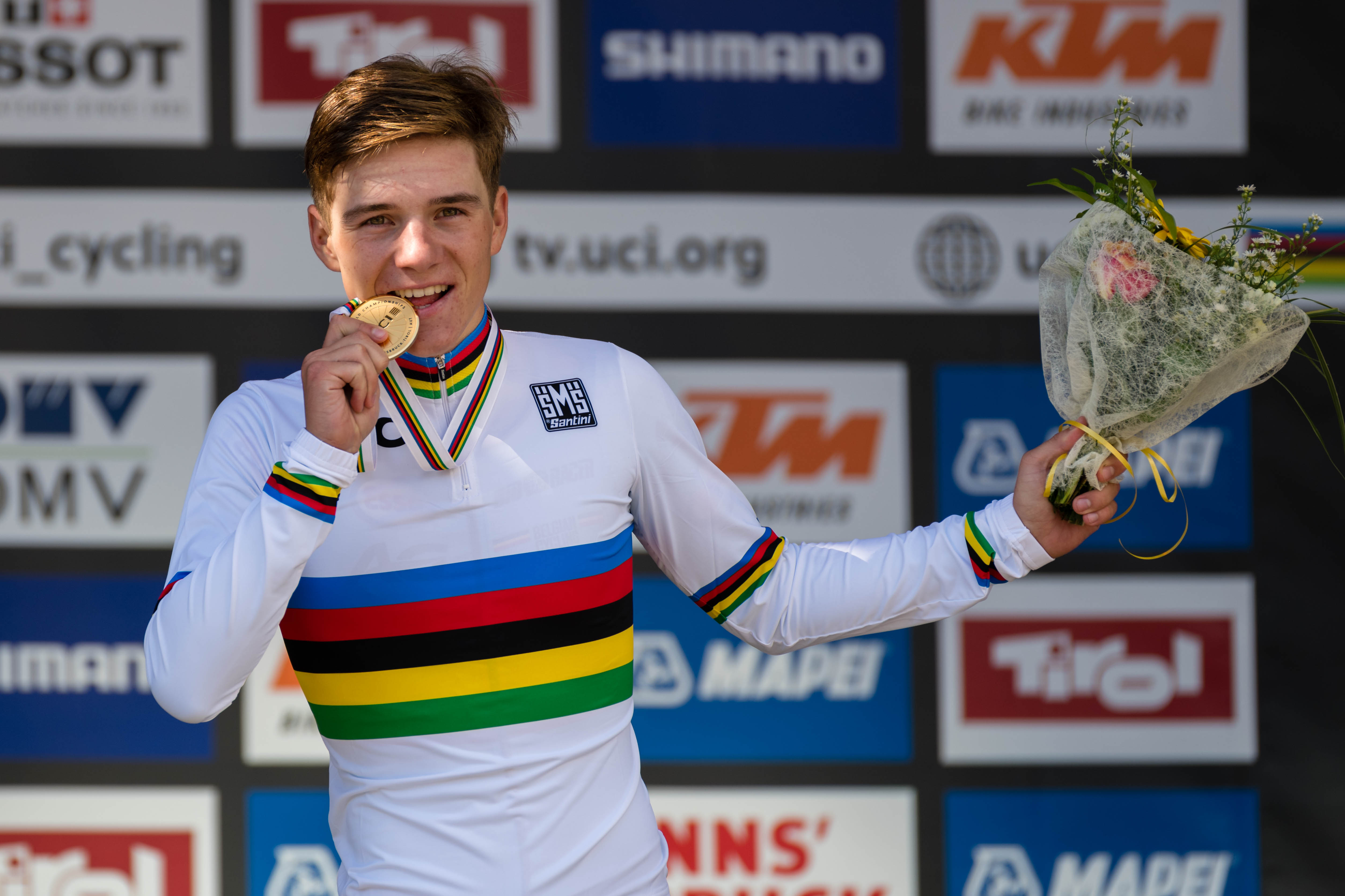 2018 UCI Road World Championships Innsbruck/Tirol Men Juniors Individual Time Trial. Picture shows: Remco Evenepoel (BEL)